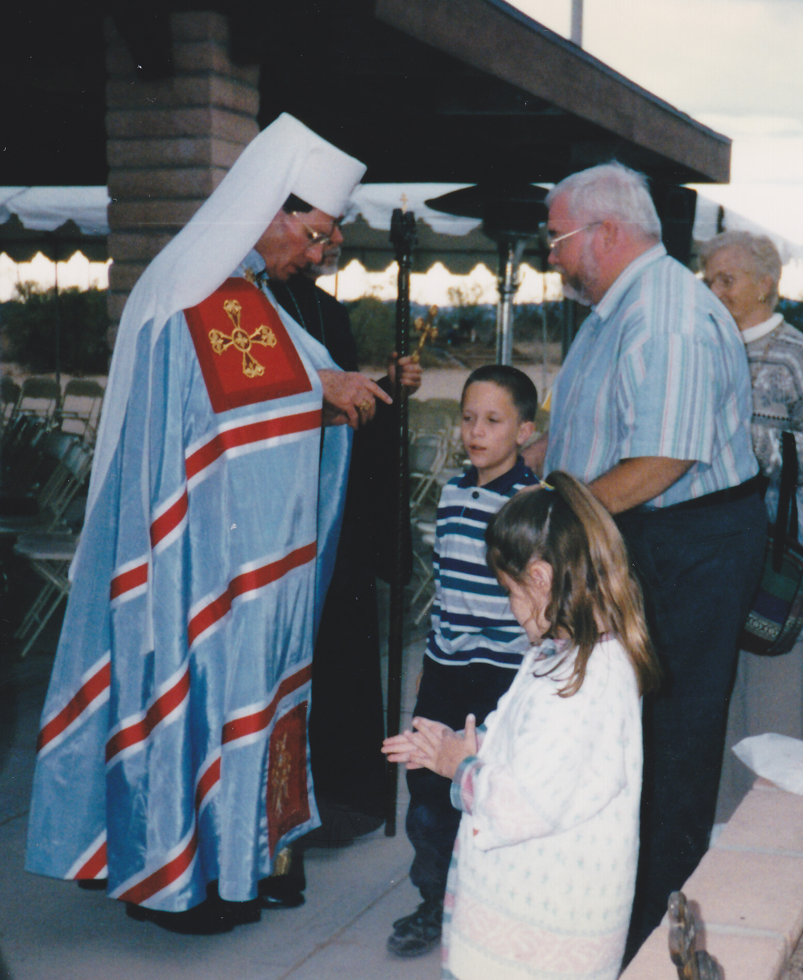 Metropolitan Judson Procyk of the Ruthenian Byzantine Catholic Metropolia of Pittsburgh, Pennsylvania blesses pilgrims from a pilgrimage at Holy Resurrection Monastery, an Eastern Catholic monastery in California. This pilgrimage is the first time Metropolitan Judson has worn the white klobuk.